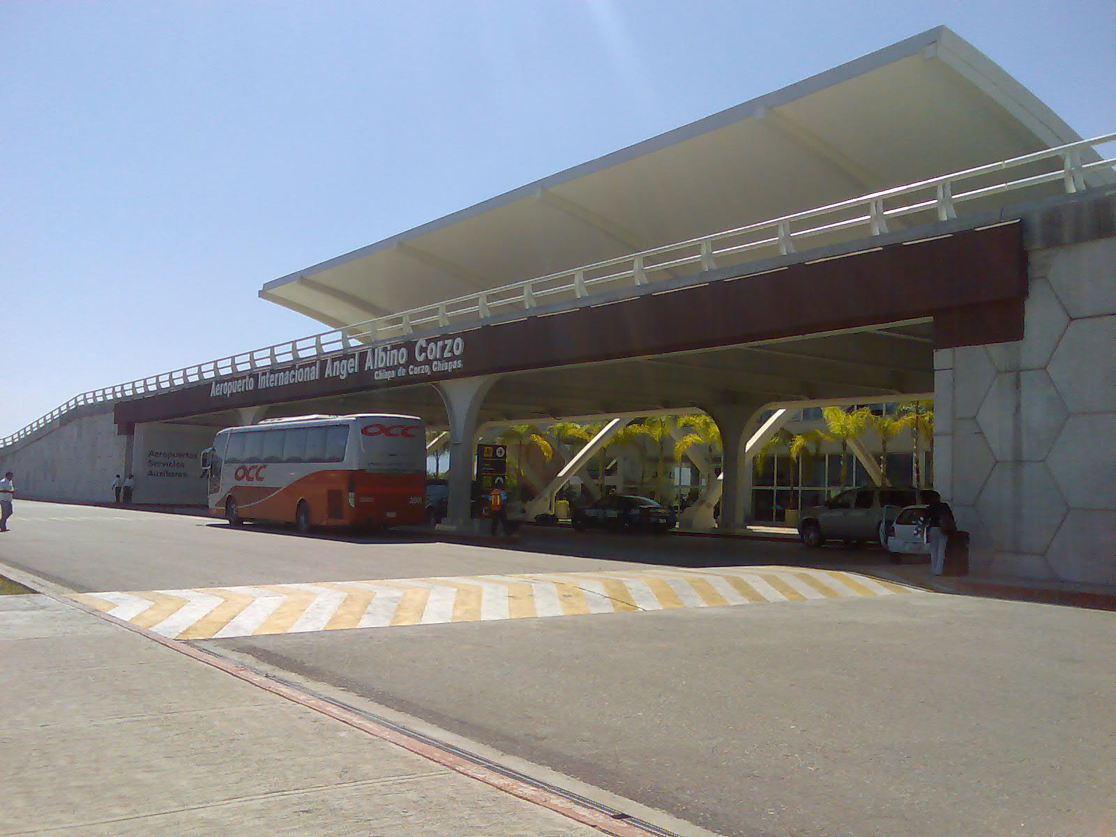 Bus service in TGZ Airport